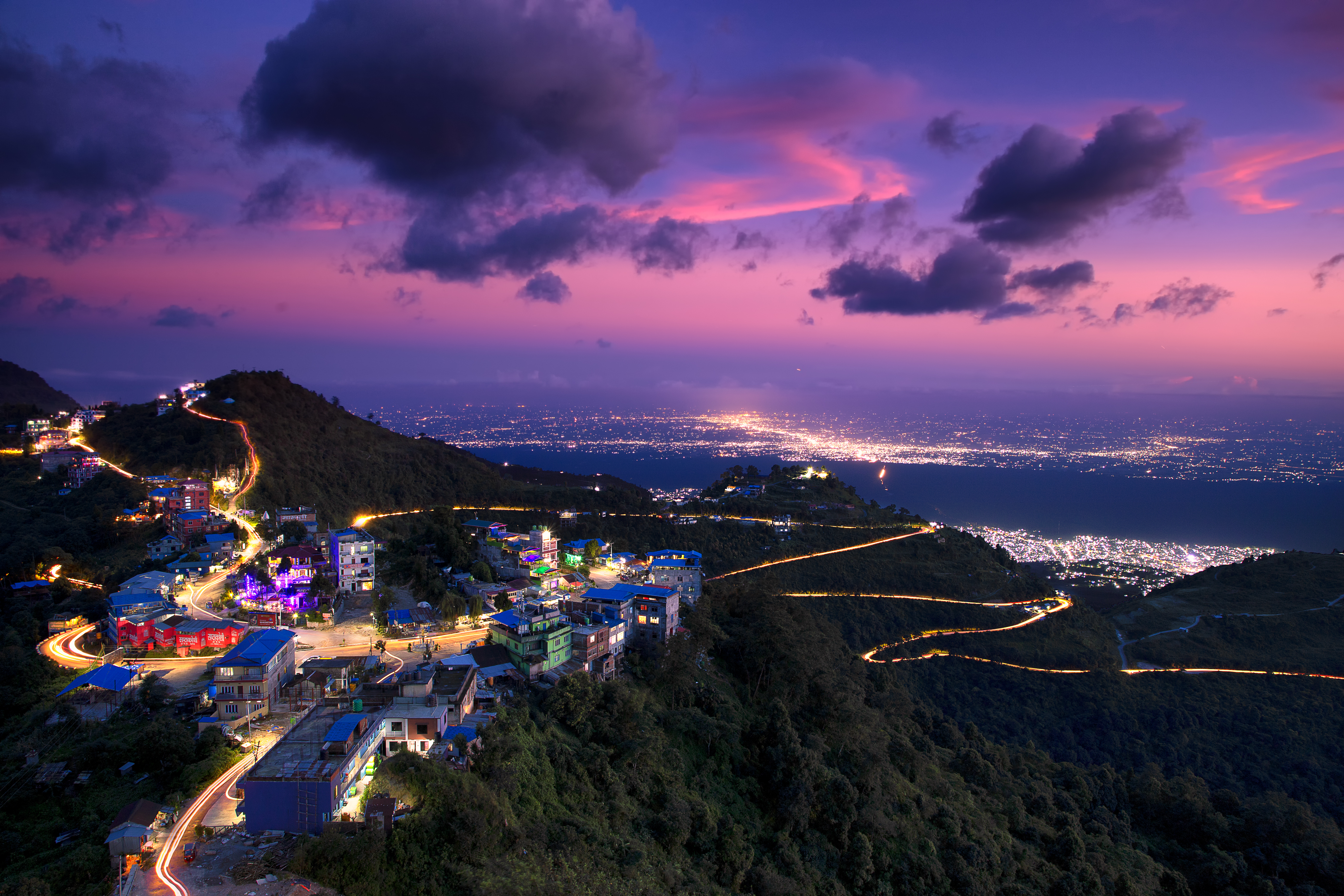 Evening view of Bhedetar along Dharan, Itahari and Tarahara town in background.